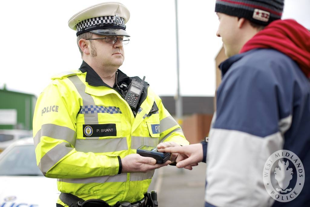 This photo shows a police inspector using one of our newest pieces of kit - a mobile fingerprint scanner. Hi-tech fingerprint scanning devices allow officers to ID crime suspects on the streets within seconds. The pocket-sized gadgets are satellite linked to a national fingerprint database and instantly alert officers if the scanned prints belong to a convicted criminal. Officers can cross-reference these prints against the Police National Computer (PNC) to find out if the person is wanted by police or the courts. The device is only used to check prints against the national database and does NOT permanently store scanned images.